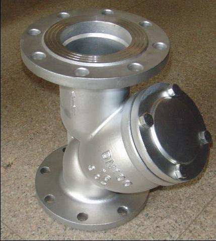 Stainless steel strainer